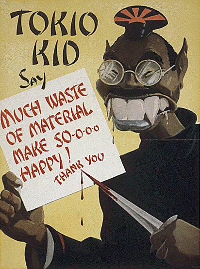 United States World War II poster. Shows a big caricature face of a demonic monster figure, possibly based on a caricature of Hideki Tōjō. The person/monster holds a blood dripping knife. The text of the poster reads: "TOKIO KID Say MUCH WASTE OF MATERIAL MAKE SO-O-o-o HAPPY! THANK YOU"